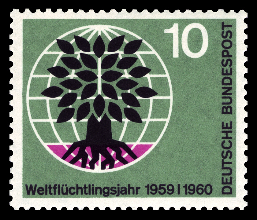 by the United Nations (UN) established World Refugee Year 1959/1960